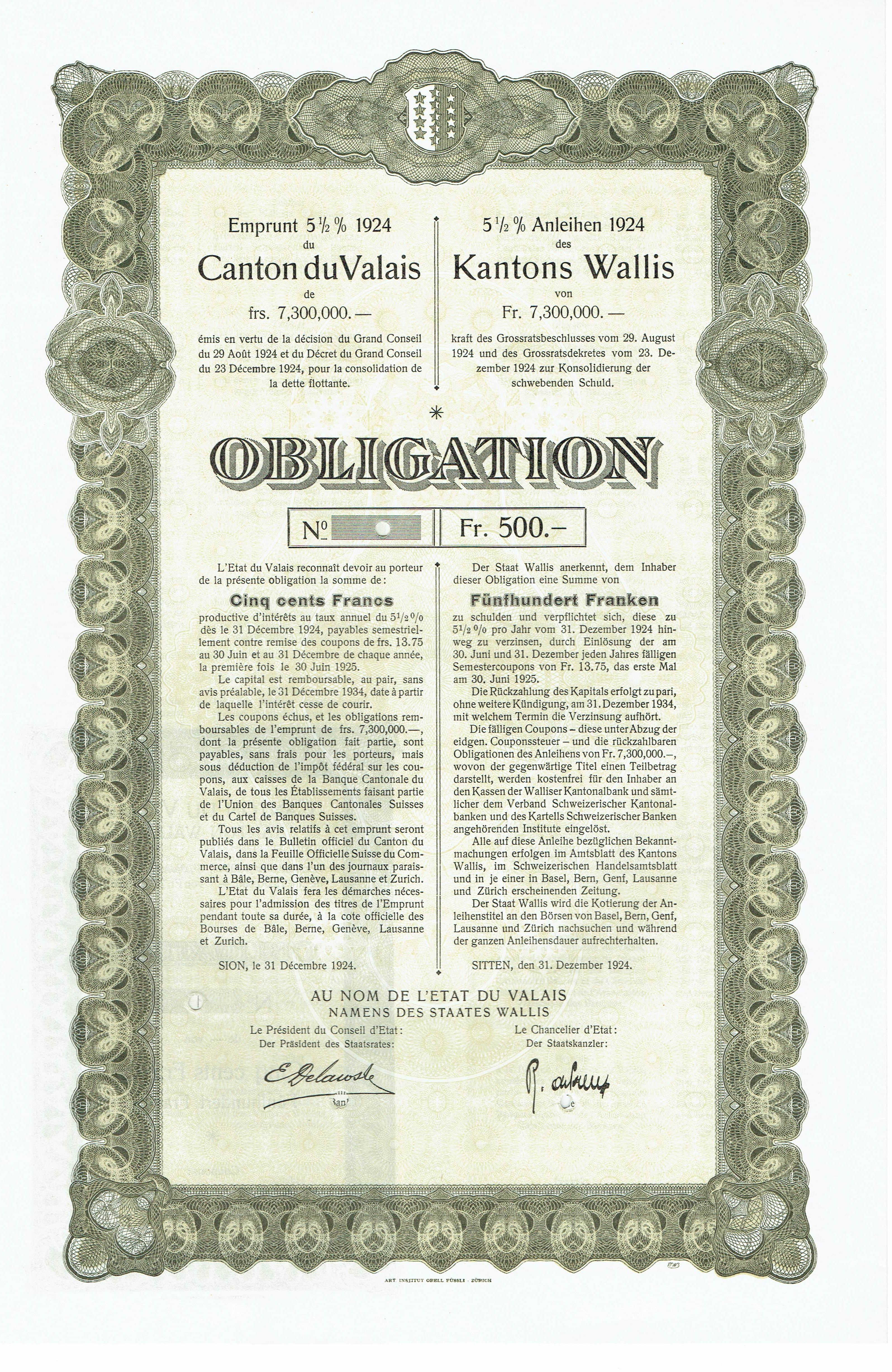 Bond of the Kanton Wallis, issued 31. December 1924